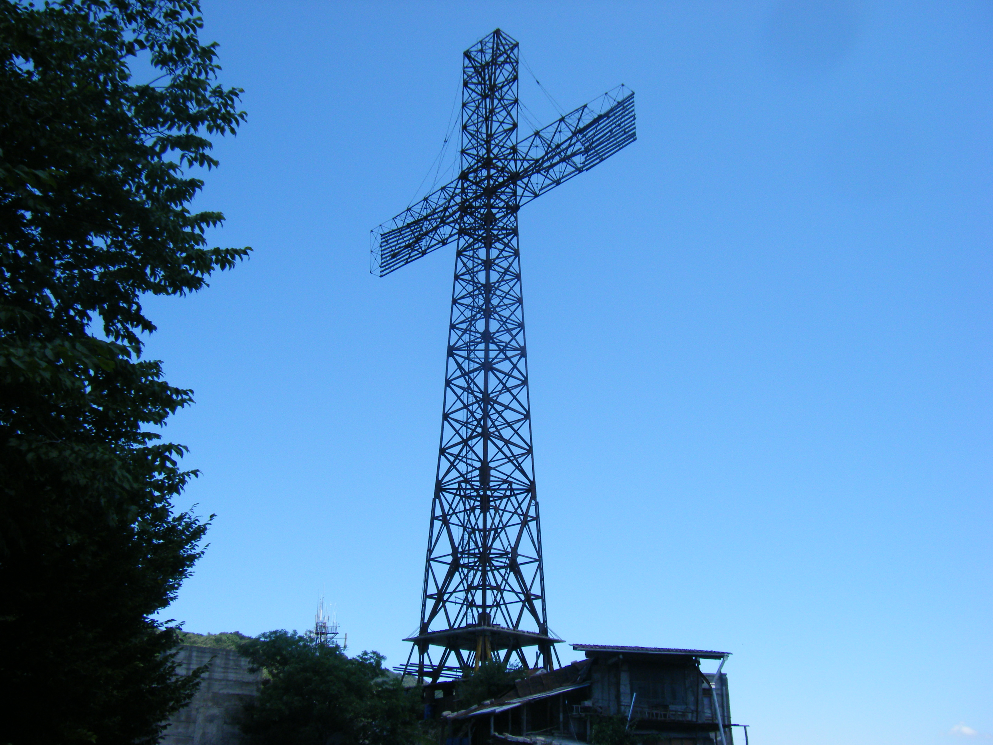 The Iron Cross near the Zedazeni Church, belonging to some Georgian Christian minority.